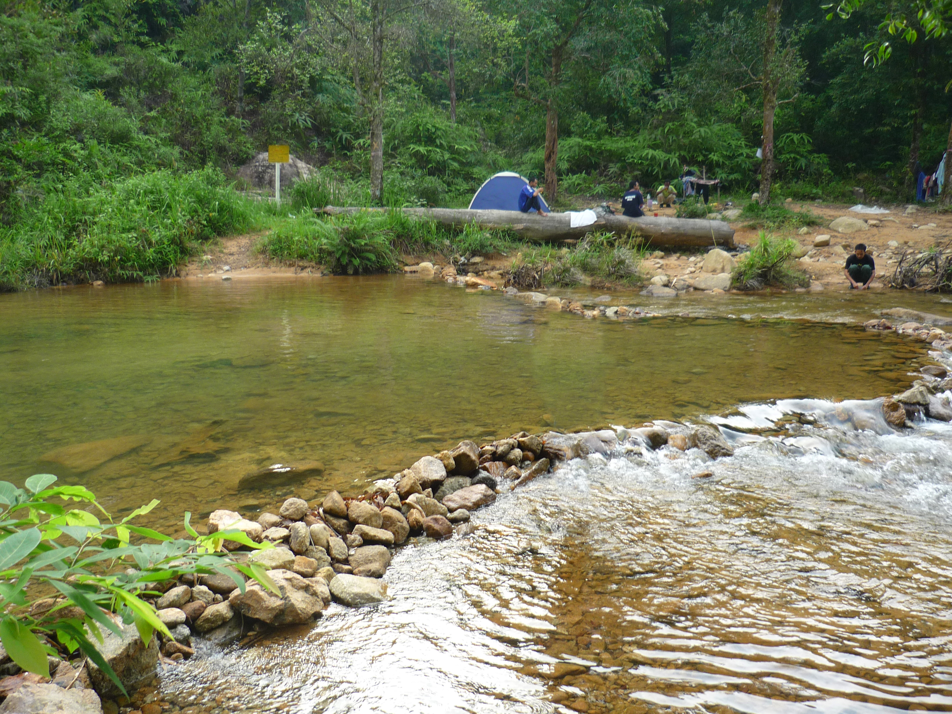 Pool at Berkelah Falls, between tier 3 and tier 4.